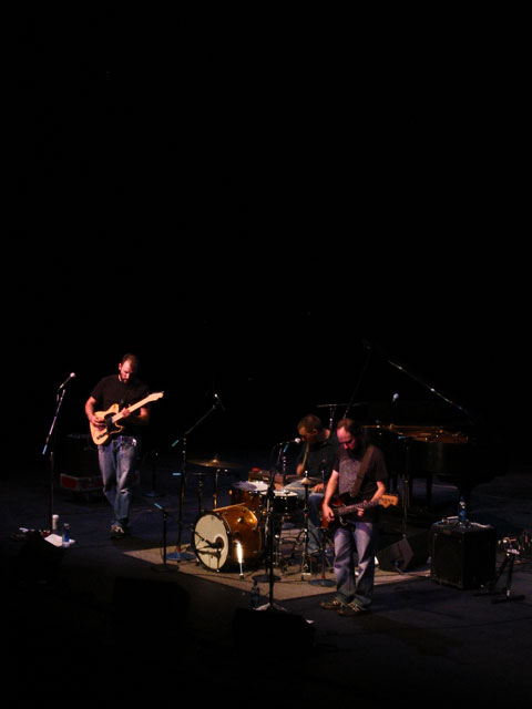 Pedro the Lion - performing at the Bumbershoot festival in Seattle. Taken sometime in 2004.